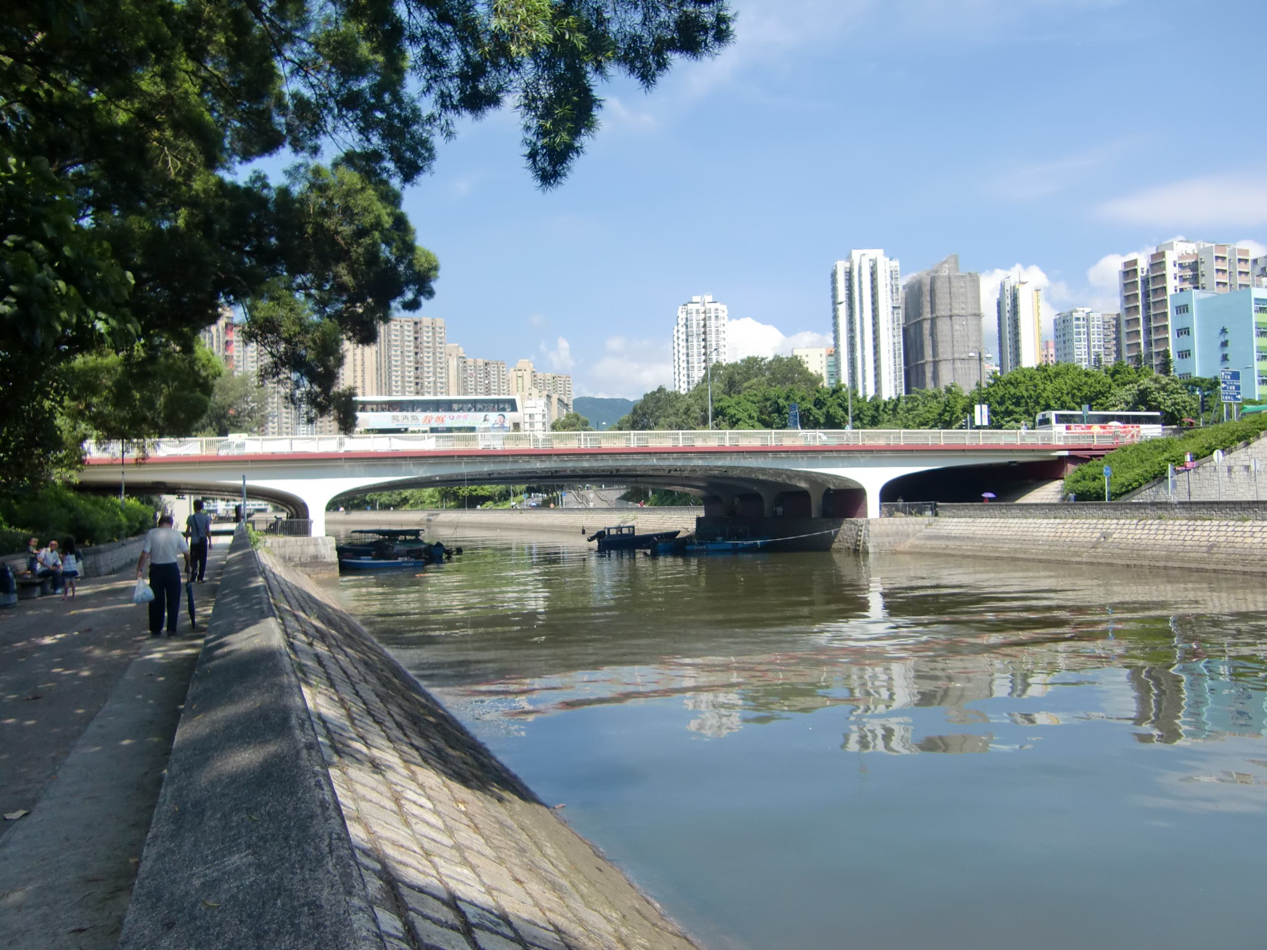 Po Heung Bridge, Tai Po, Hong Kong